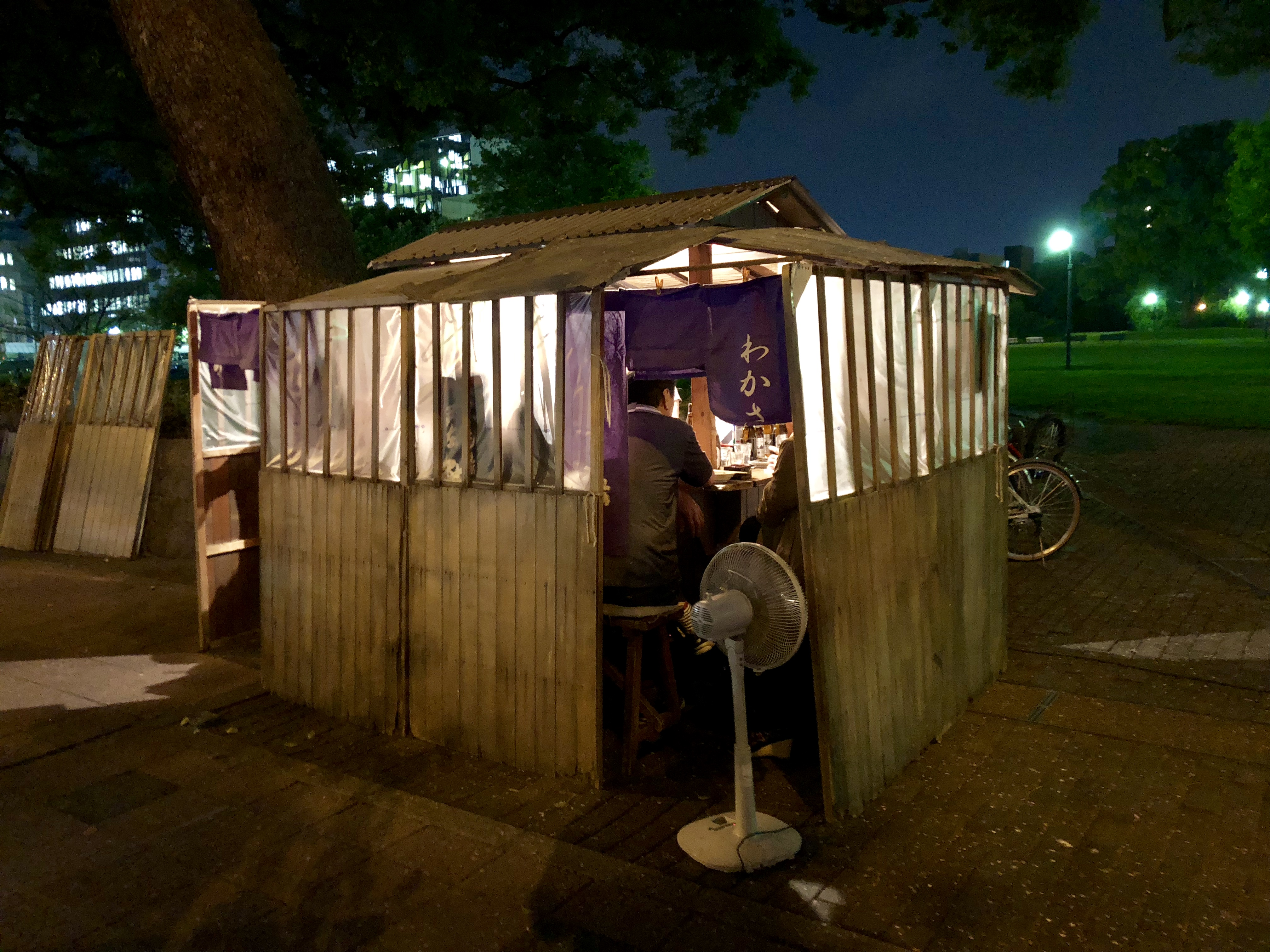 The last remaining yatai in Kumamoto Prefecture